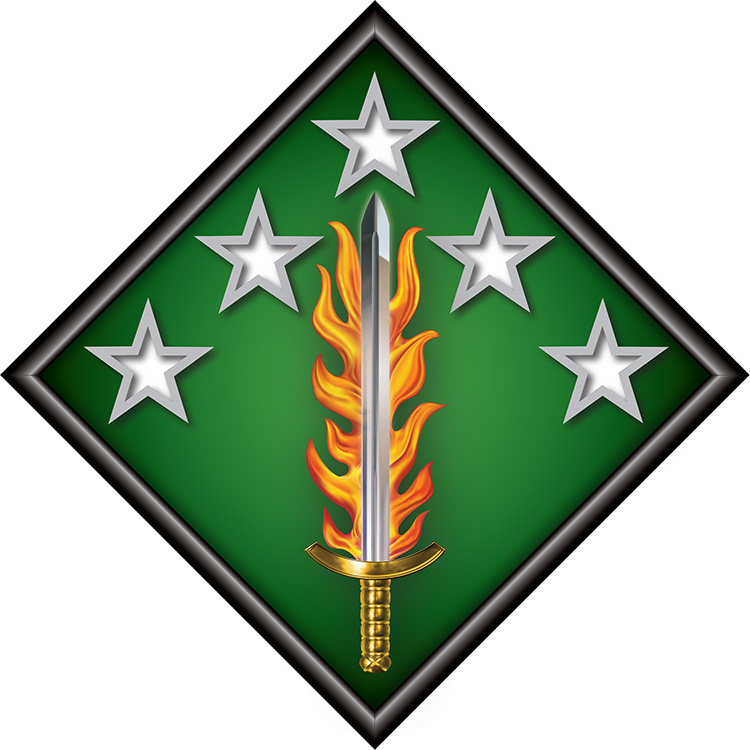 20th CBRNE distinctive insignia.